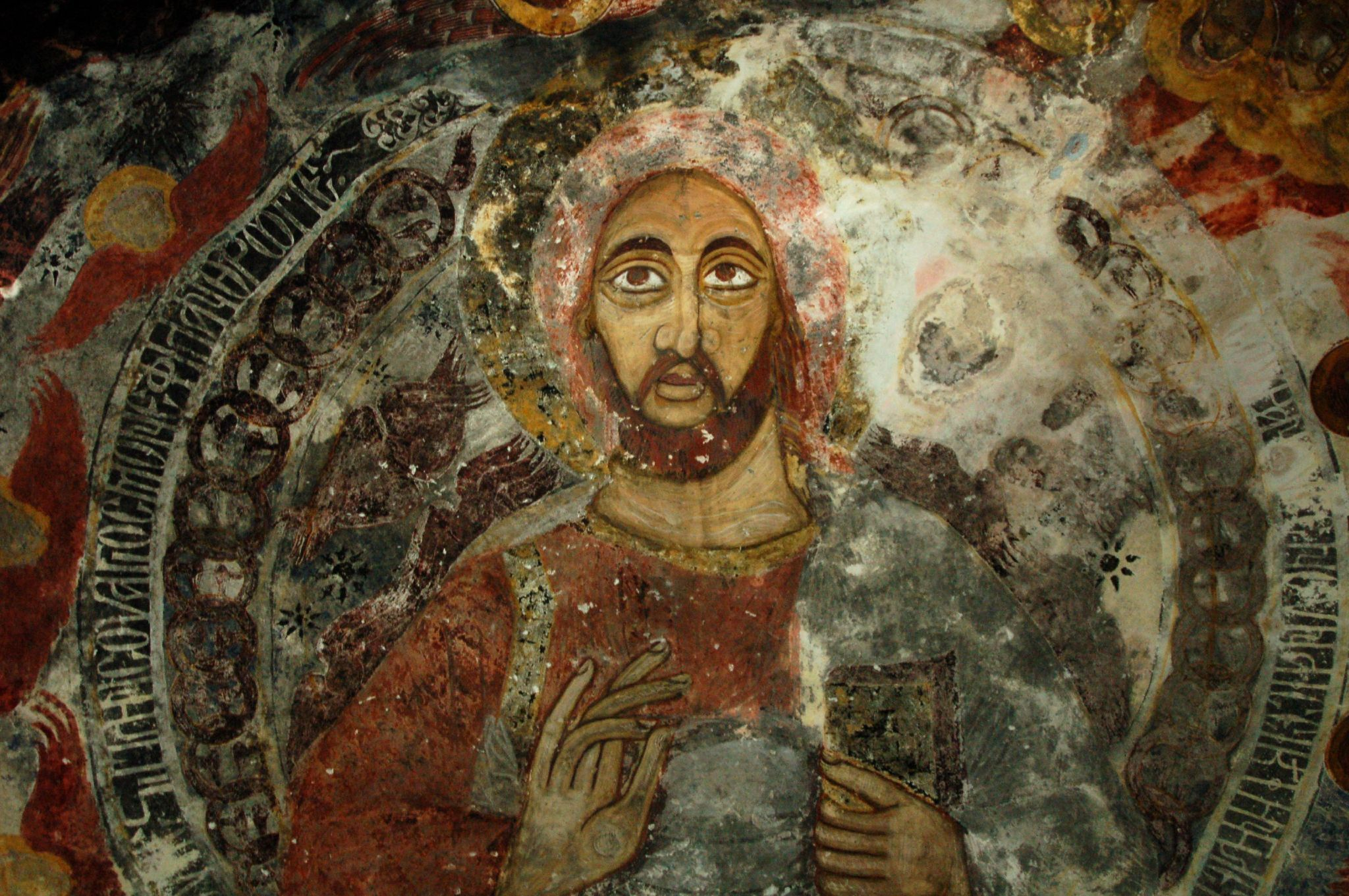 Ceiling of one of the chambers of the Sumela monastery